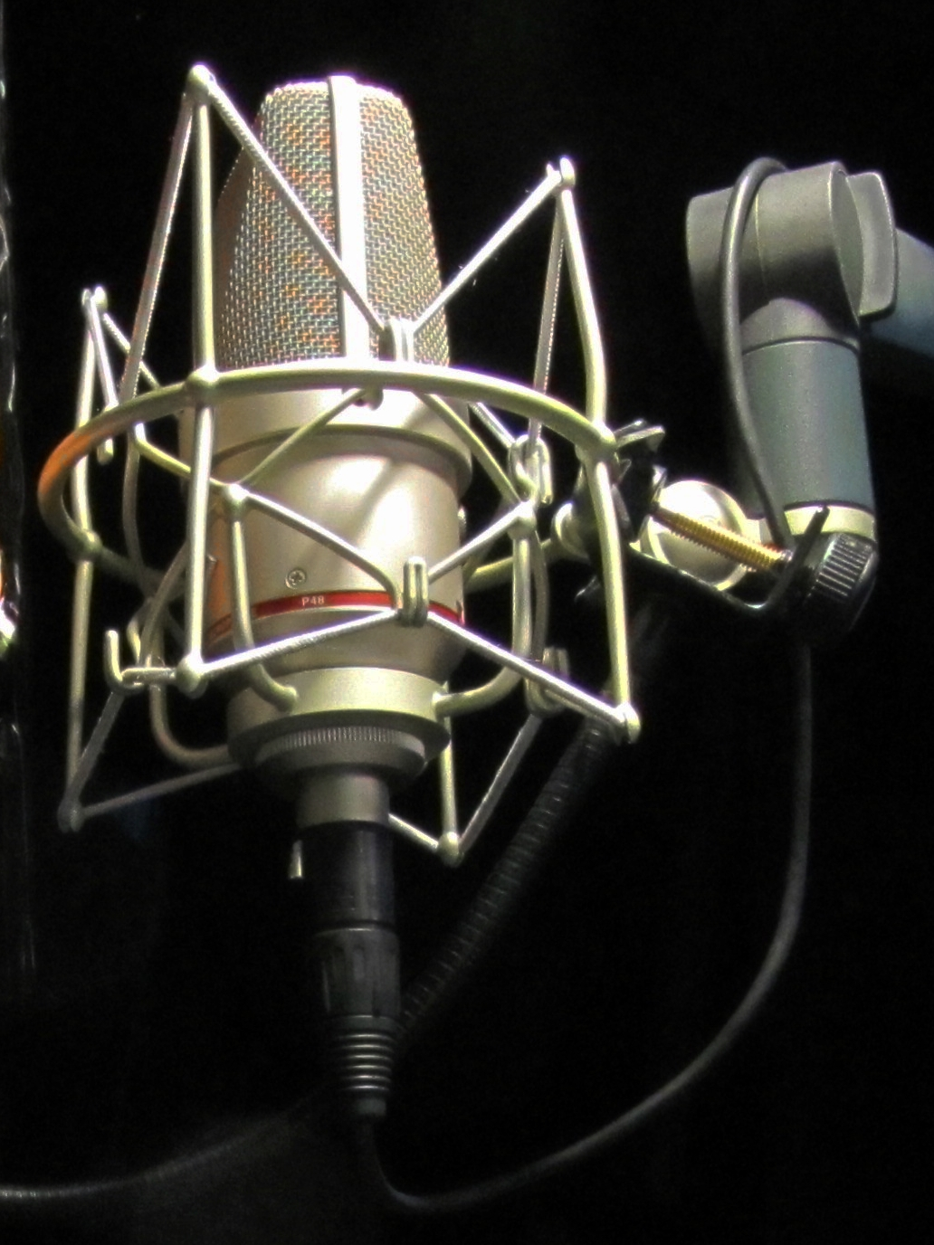 Neumann TLM 170 R Switchable Studio Microphone